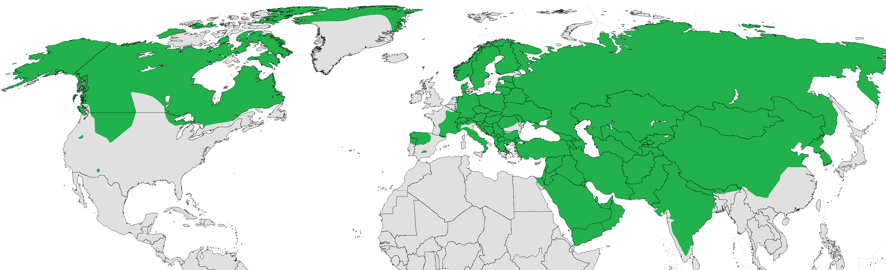 Global range of Canis lupus according to IUCN, including national borders